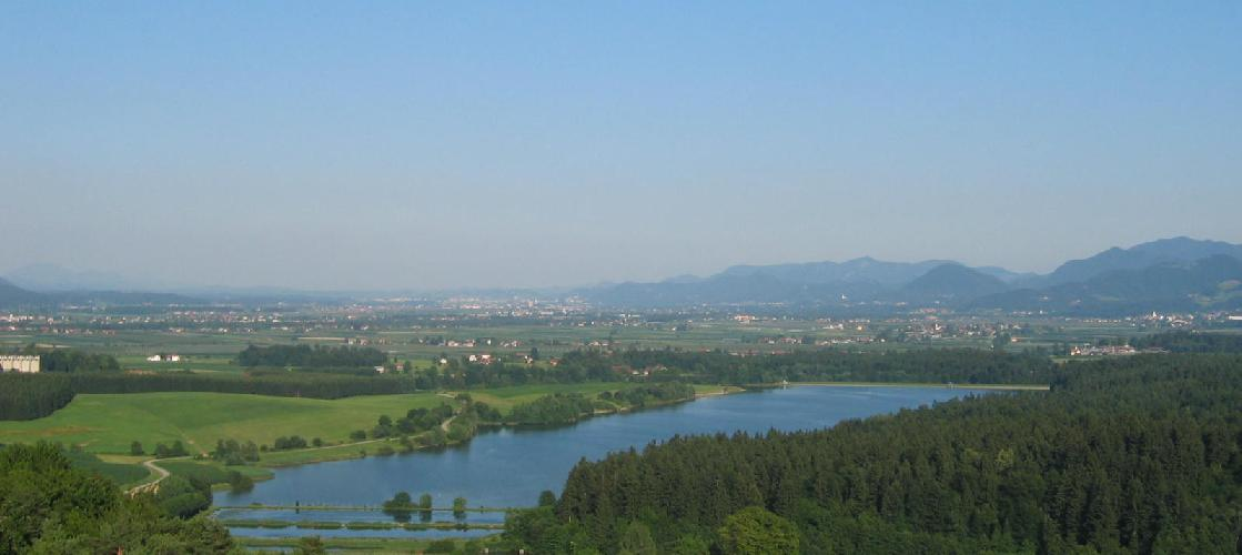 Žovneško jezero (Žovnek Lake) near Celje, Slovenia. Photo:Ziga 22:14, 21 August 2006 (UTC)